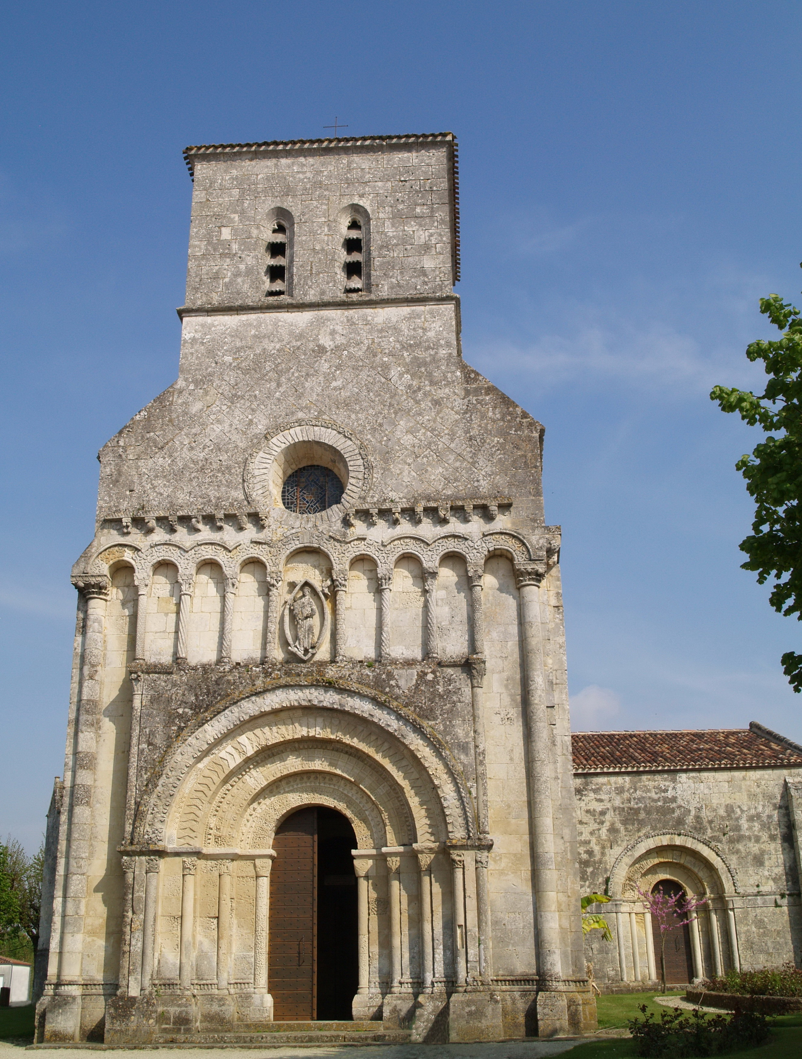 Rioux (Charente-Maritime, France) - Romanesque church Notre-Dame